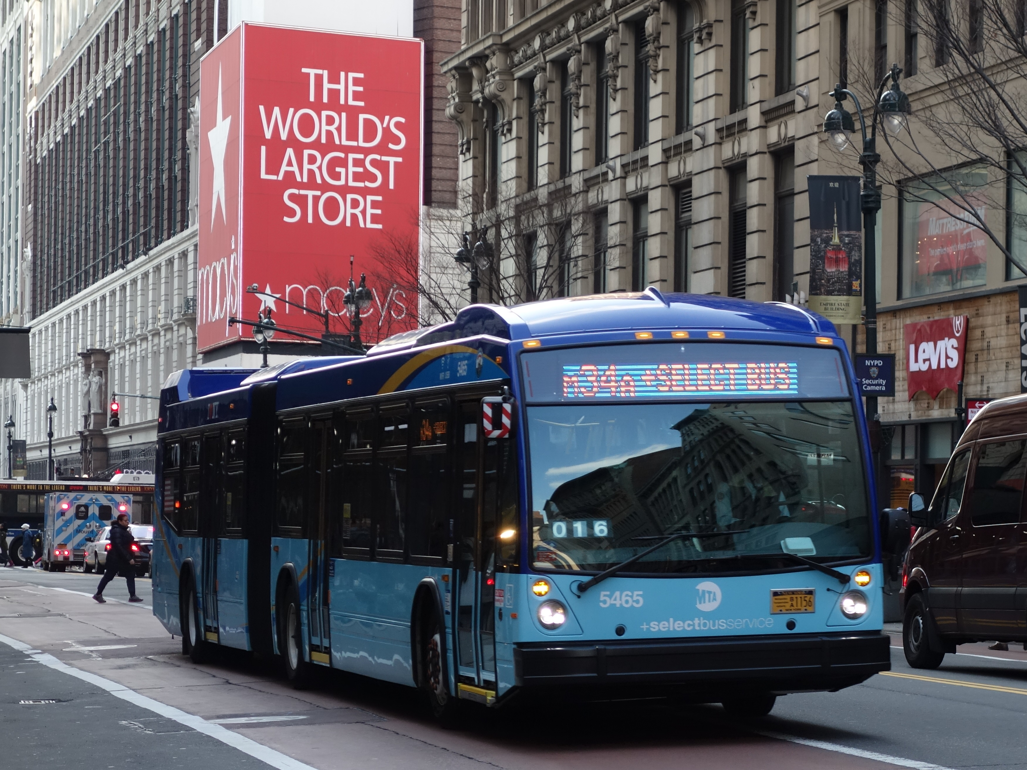 A Waterside Plaza-bound M34A SBS bus traveling east on 34th Street between 5th and 6th Avenues in the Garment District / Herald Square, Manhattan. Macy's Herald Square is in the background. This is the new MTA livery on a new(er) Nova Bus LFS.